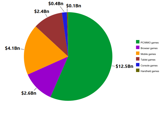 Pie graph of the video game market in China in billions of US dollars, in 2015. Computer gaming dominates the Chinese game market, followed by mobile and tablet games, with dedicated consoles falling behind. Newzoo 2015 Global Games Market Report Premium (2015-02-04). "USA & China Battle for#1 Top Games Market". Games Sector Report 2015. Casual Games Association. Chart by User:Maplestrip